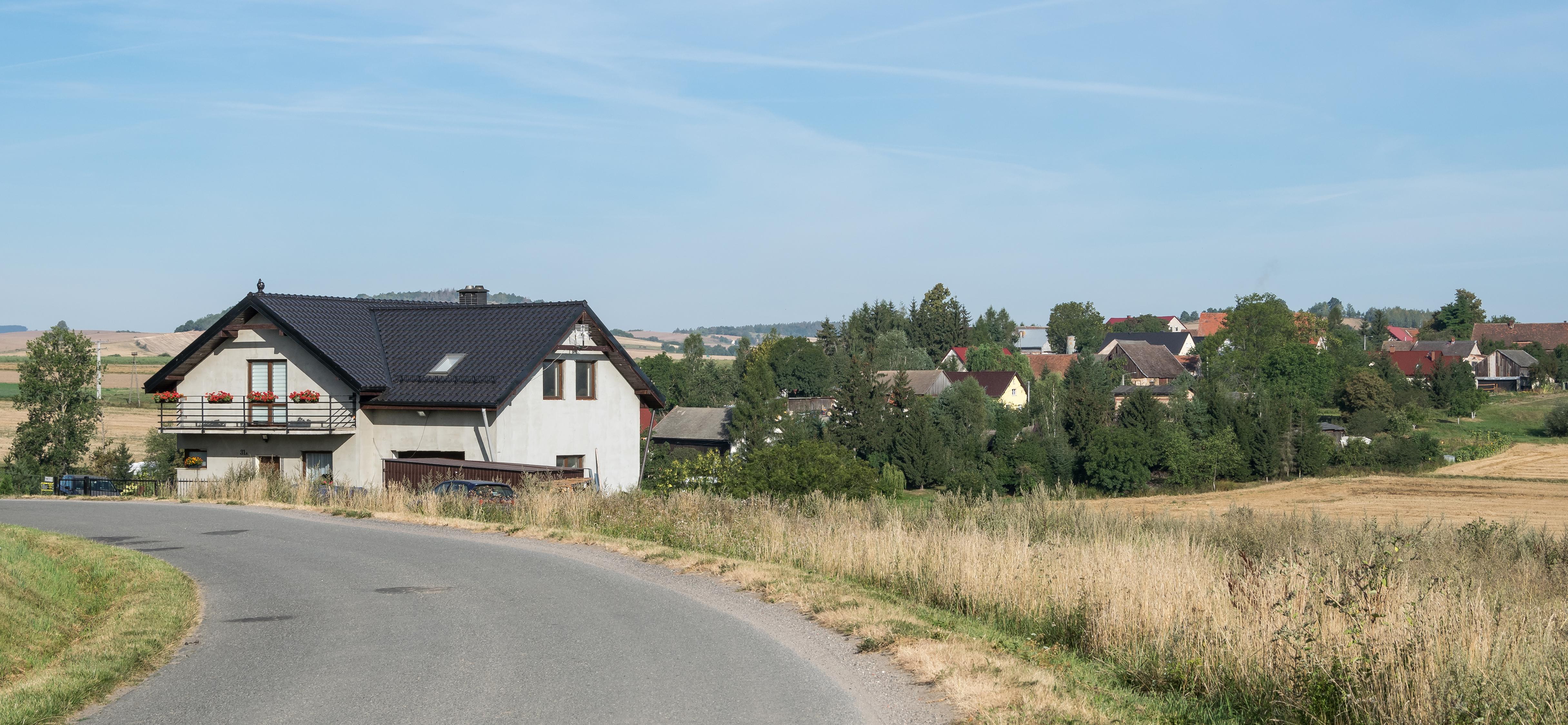 Ruszowice